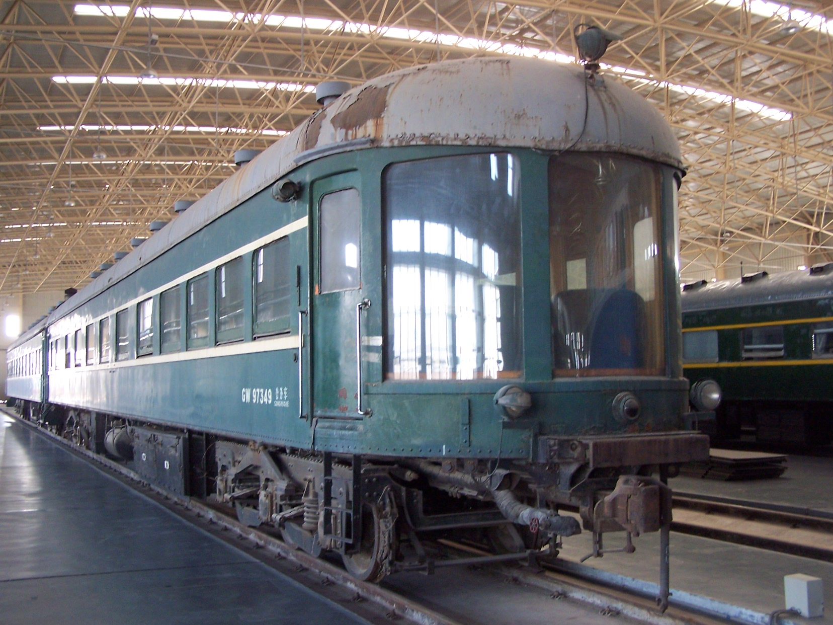 two coaches in China Railway Museum. They once belonged to South Manchurian Railway (SMR)'s famous express train "ASIA", and were transfered into coaches of Teng Daiyuan 滕代远 and Lu Zhengcao 吕正操, ministers of railways of PRC